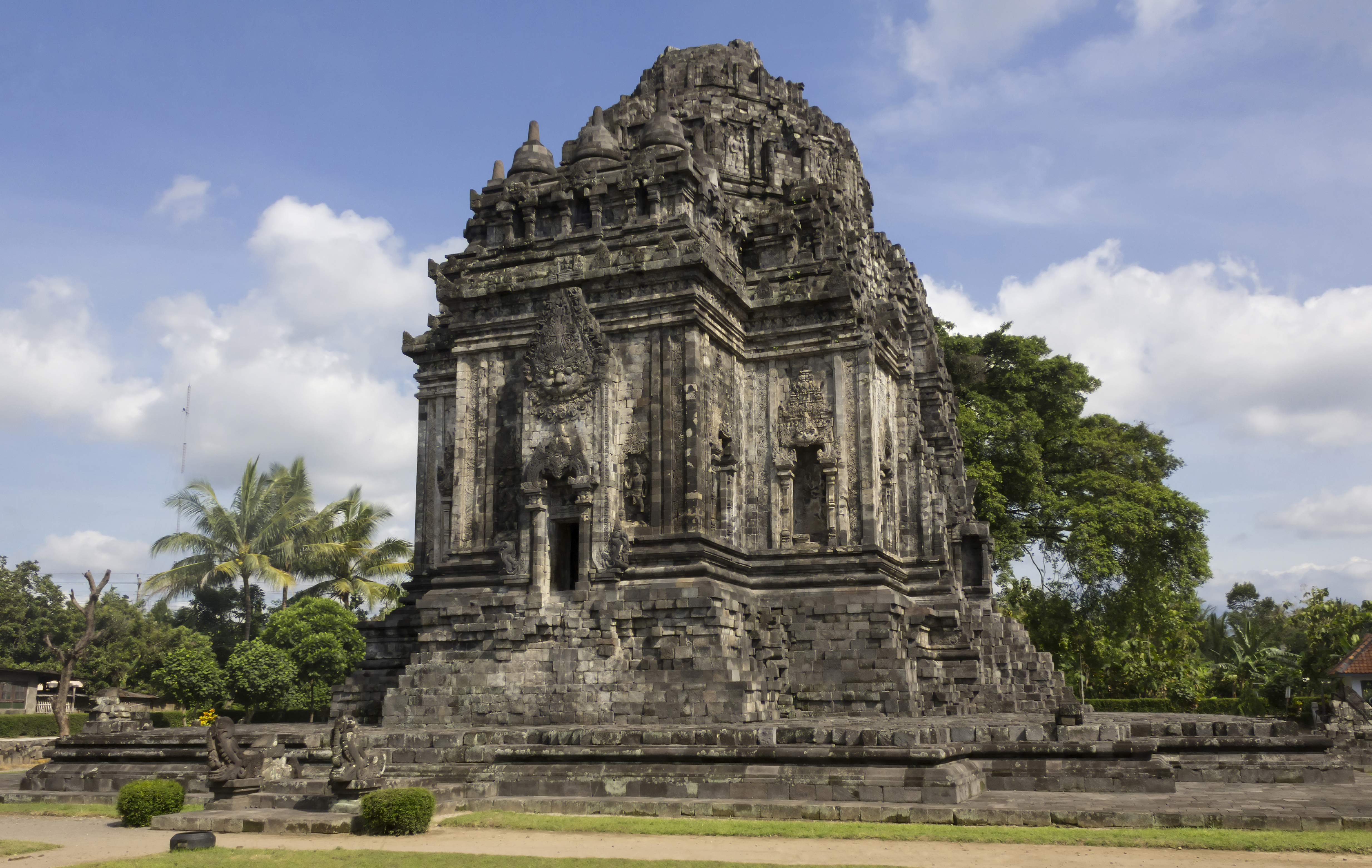 Kalasan Temple, as seen from the north-east, 23 November 2013